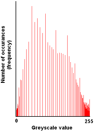 Greyscale frequency histogram of Equalized Hawkes Bay NZ.jpg.